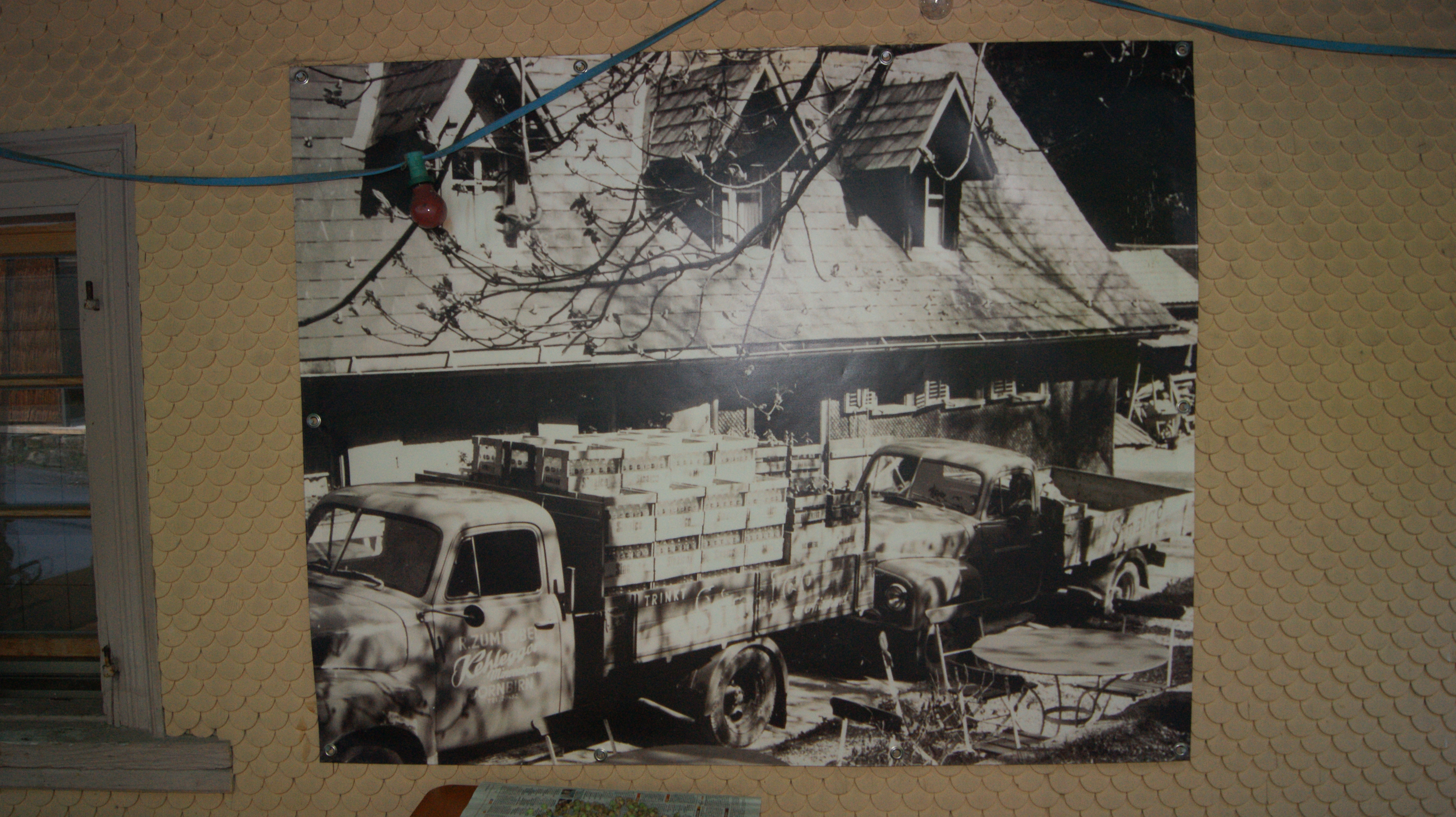 Spa Kehlegg in Kehlegg, Dornbirn, Vorarlberg, Austria. Old advertising photo.